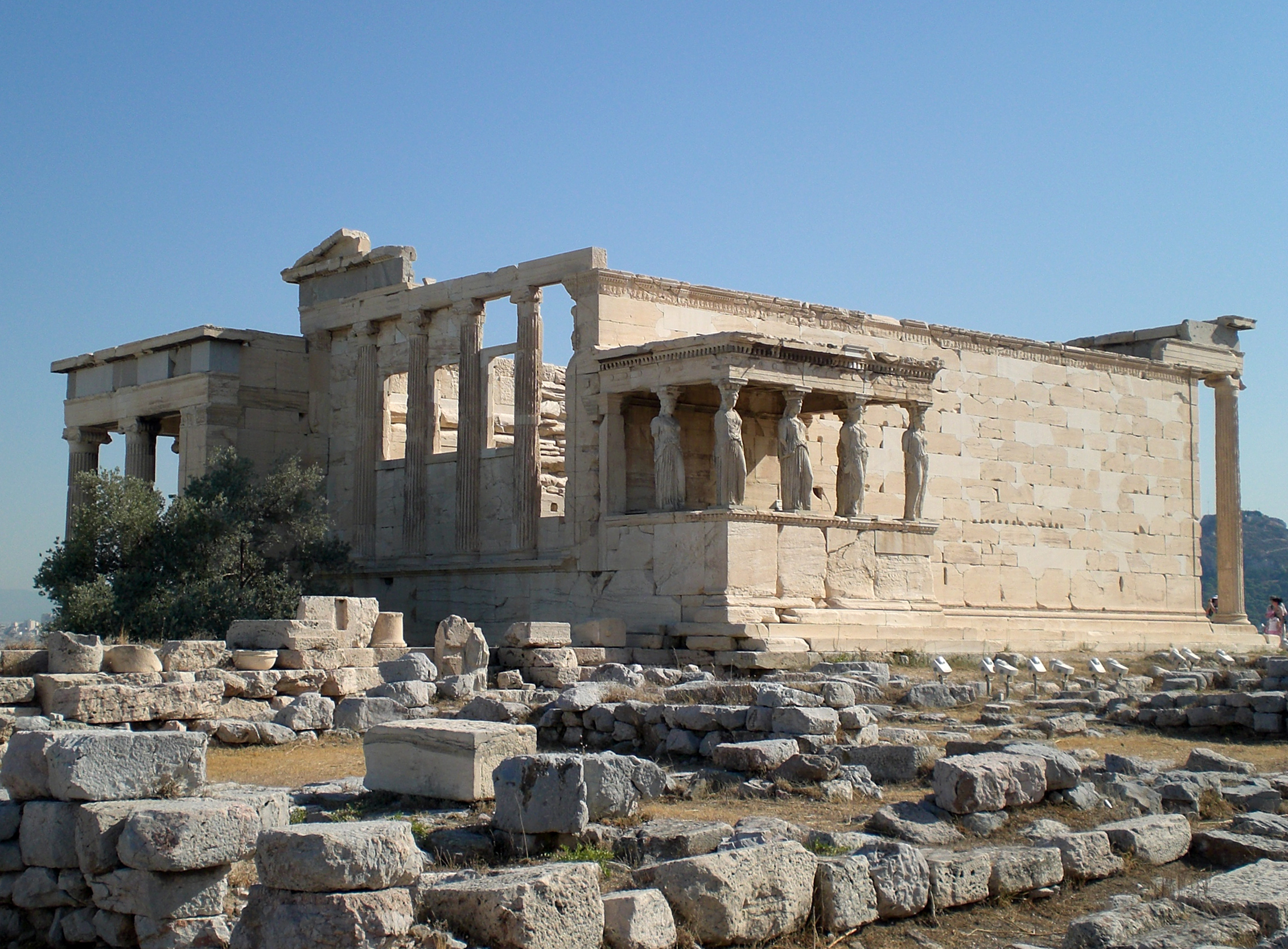 The Erechtheum in Athens, Greece.